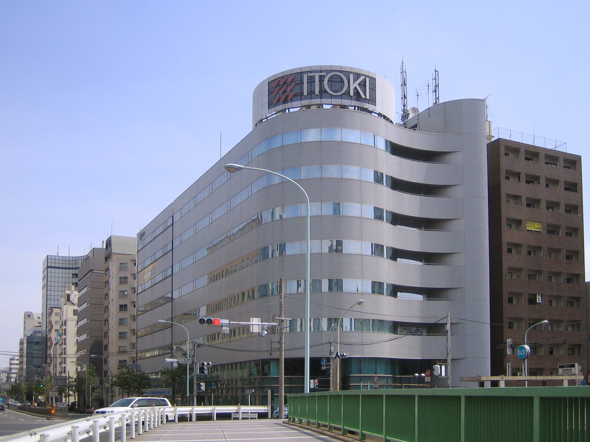 Itoki Corporation (イトーキ), in Chuo, Tokyo, Japan